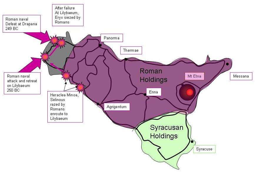 A map of Sicily showing Rome and Carthage's territories, movements and the main military clashes 253–251 BC.